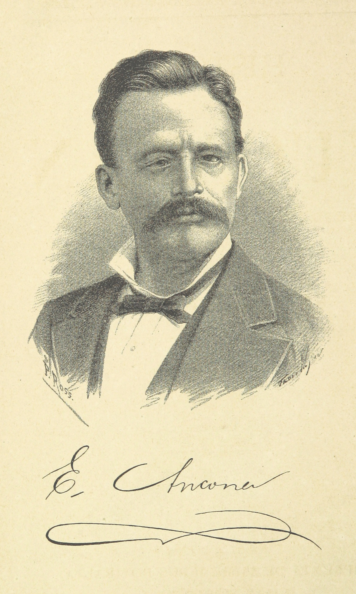 Portrait of Eligio Ancona del Castillo